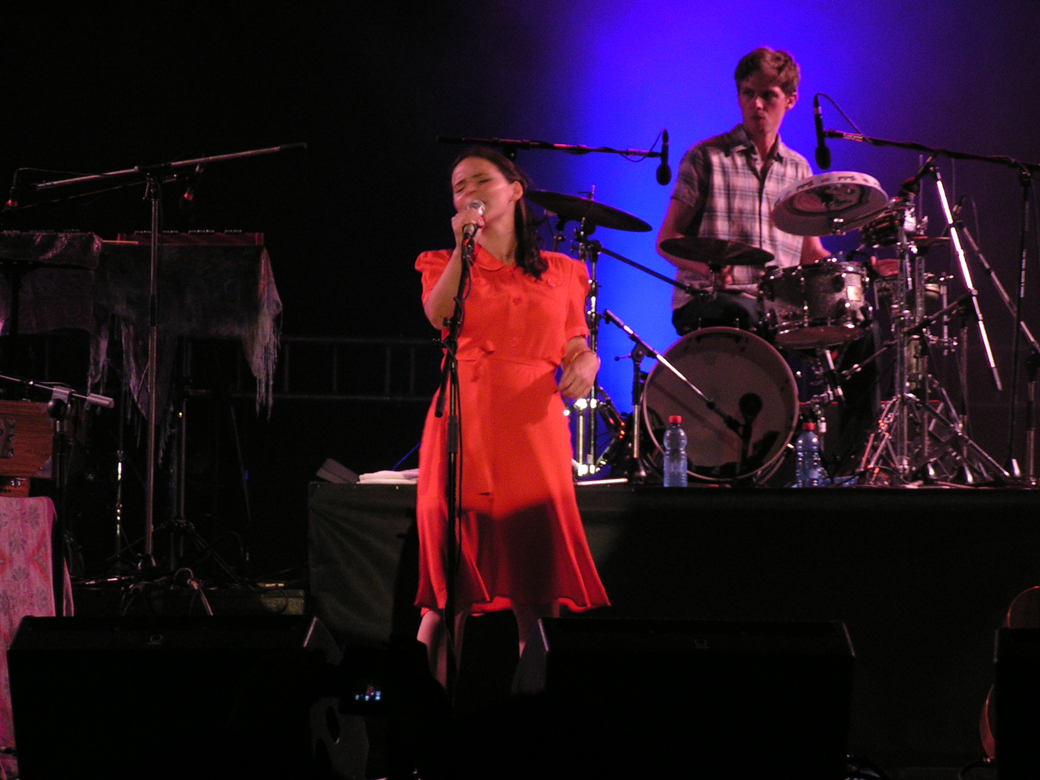 Emiliana Torrini at the Orange Music Experience Festival, Haifa 2005